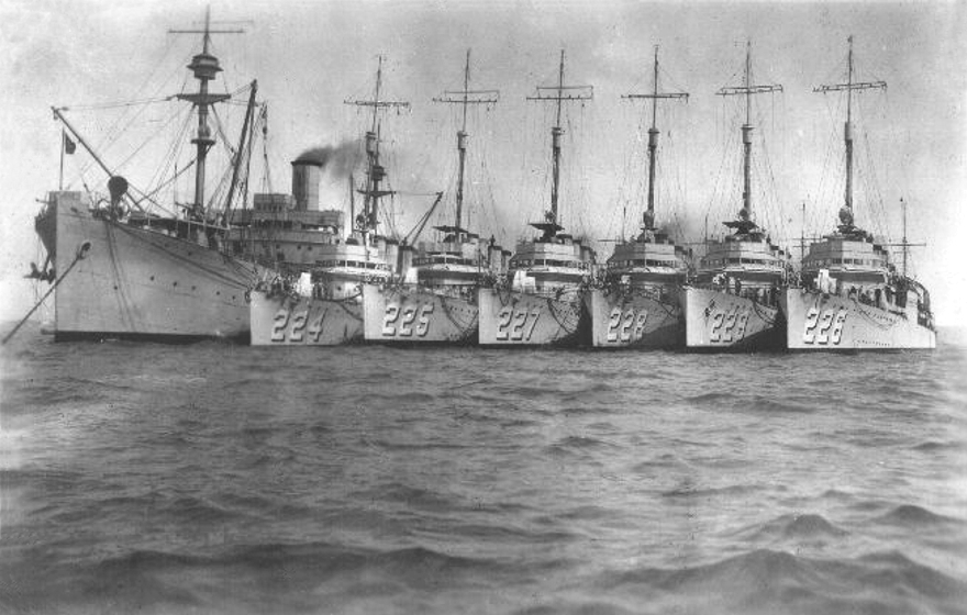 The U.S. Navy destroyer tender USS Whitney (AD-4) with six Clemson-class destroyers alongside: USS Stewart (DD-224), USS Pope (DD-225), USS Pillsbury (DD-227), USS John D. Ford (DD-228), USS Truxtun (DD-229), and USS Peary (DD-226), in the 1930s.